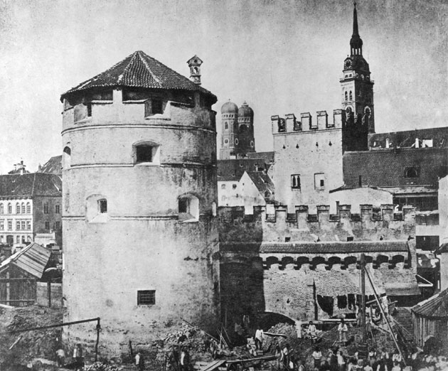 Scheibling in the Frauenstraße, Munich